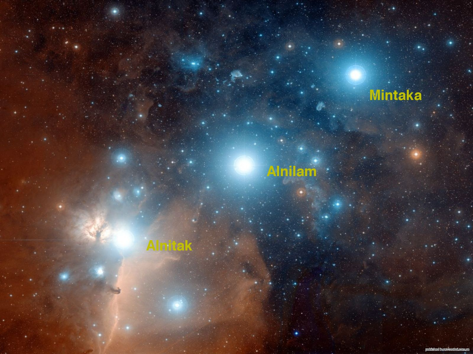 Orion's Belt. Caution: the leftmost yellow caption must be "Alnitak", not "Alnilam"